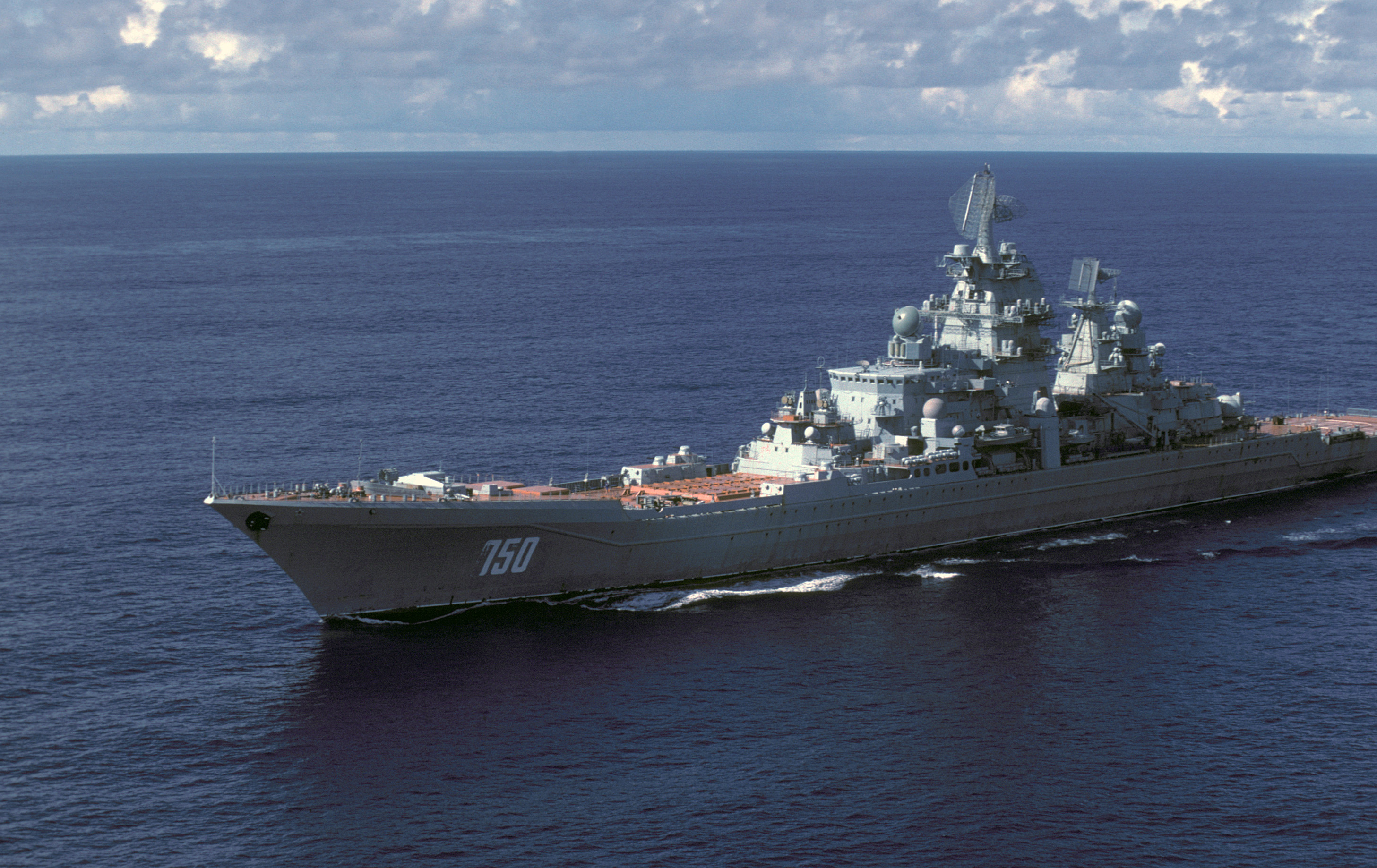 Aerial port bow view of the Soviet KIROV class nuclear-powered guided missile cruiser FRUNZE underway.